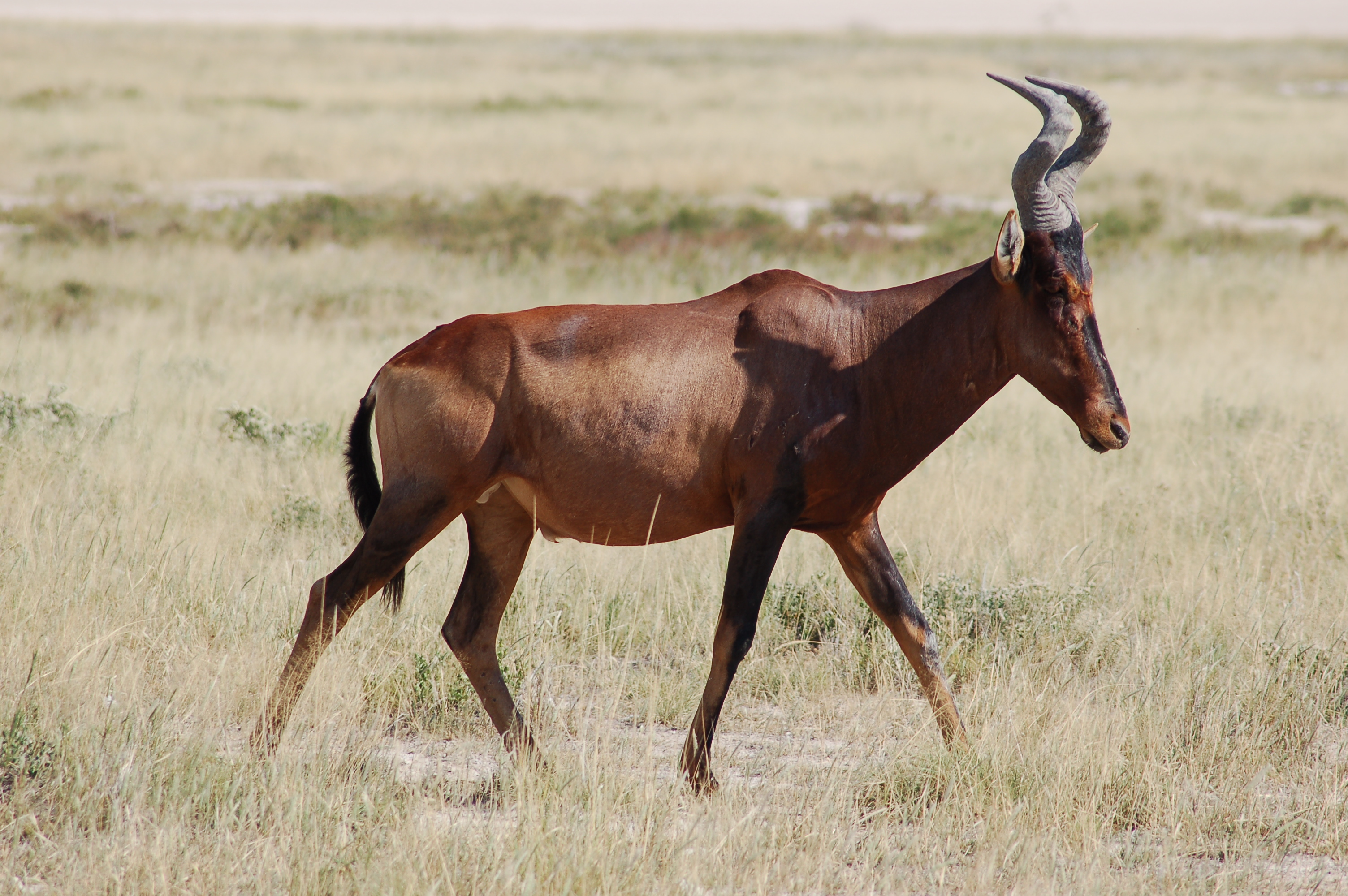 Etosha National Park, Namibia